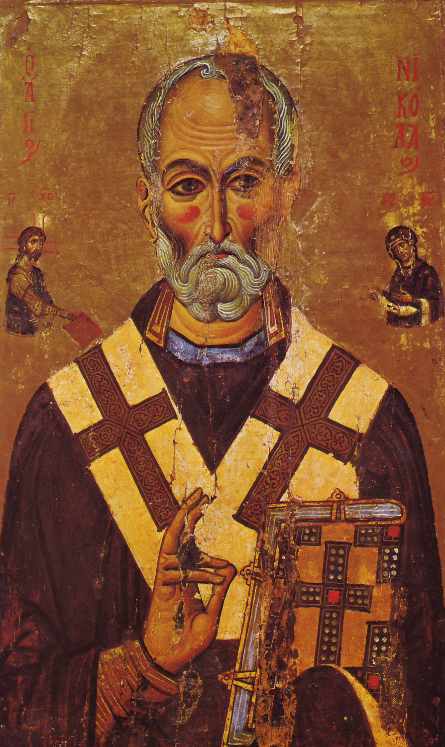 Half-length portrait showing Saint Nicholas of Myra. First half of the 13th century. 82 x 56.9 cm